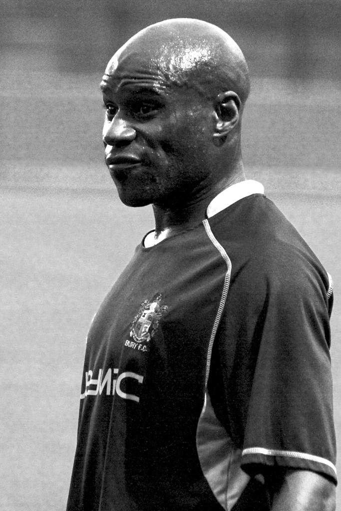 Bury FC trialist Frank Sinclair during the Ramsbottom United vs. Bury friendly game at The Riverside, home of Ramsbottom United FC. Tuesday 4th August 2009